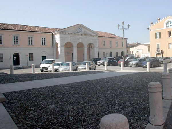 Rezzato, Piazza Vantini. Sullo sfondo la sede municipale.